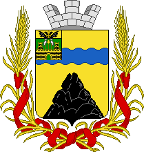 Coat of Arms of Maikop, 1875